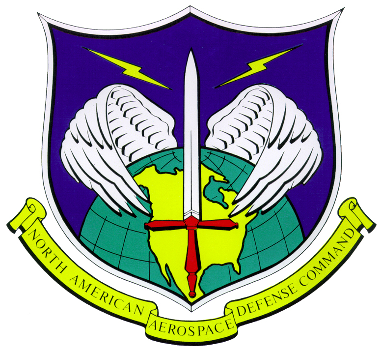 Official seal of the North American Aerospace Defense Command. Note that the oceans' colour is supposed to be "turquoise" [1] but has consistently been rendered, in recent years, as frankly greenish. Older memorabilia uses a bluer colour, ranging up to light blue.